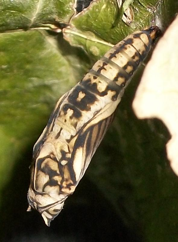 Boisduval's Tree Nymph male pupa, Amanzimtoti.